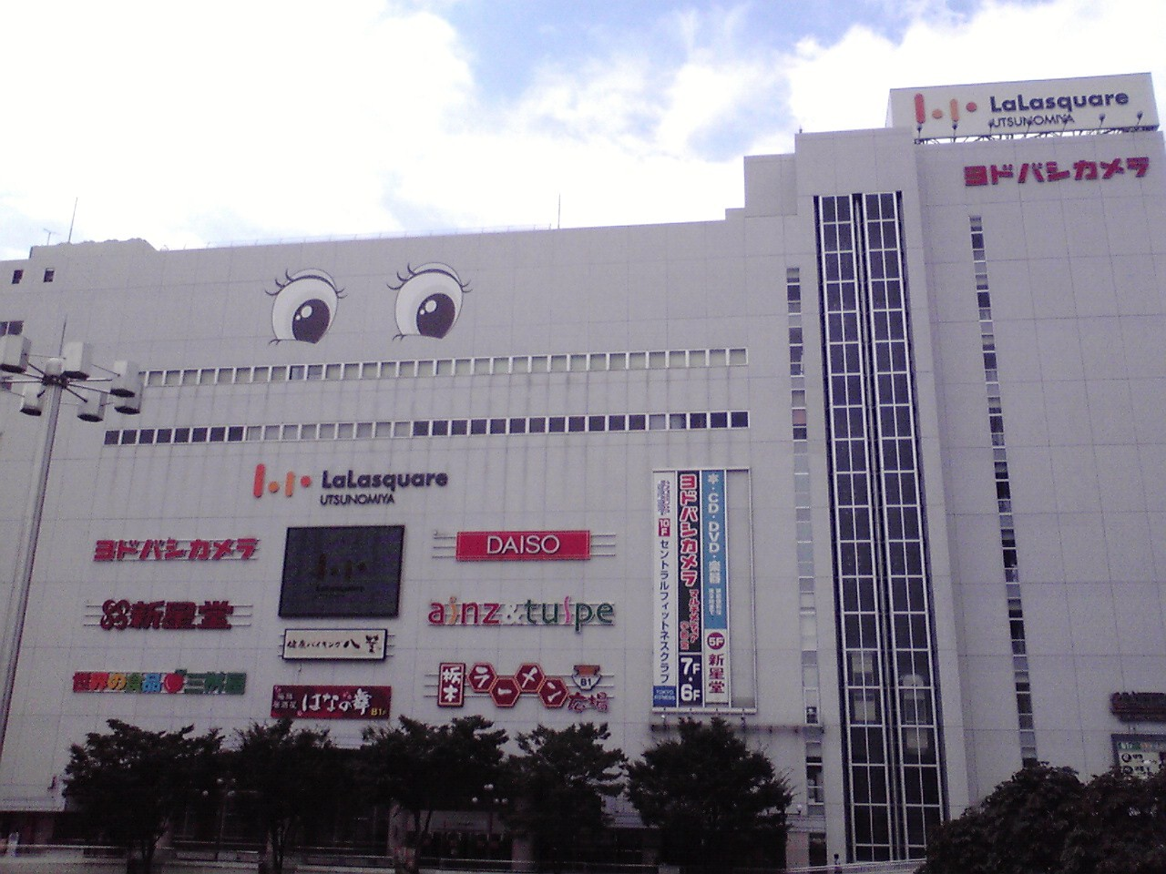 This is Japanese shopping mall "LaLa Square Utsunomiya", in front of JR Utsunomiya station west side.